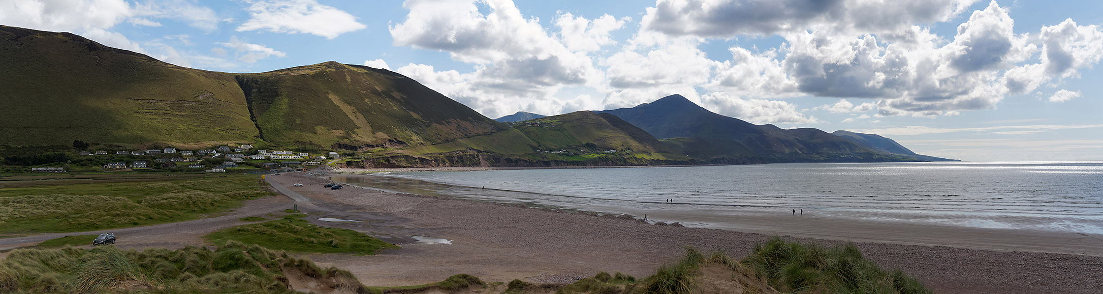 Beach at Rossbeigh in the Dingle Bay of County Kerry, Ireland